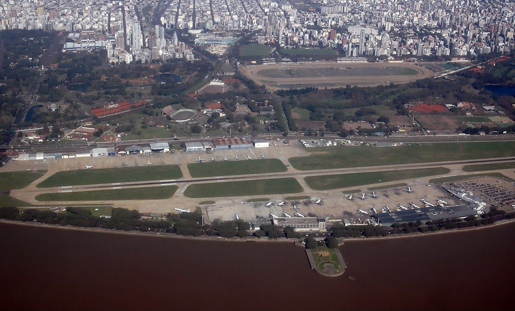 Overview of a part of Buenos Aires' Aeroparque Jorge Newbery airport (AEP/SABE). You can see on the left side of the apt the Boeing 757 of the Argentine President. Photo taken from "Plunita" CX-PUC in flight from Punta del Este. Dedicated to my good friends of the Control Tower: Rodolfo, Claudio, Alejandro, RB.